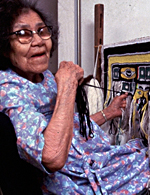 Jenny Thlunaut Haines, AK Tlingit Chilkat Blanket Weaver Photo courtesy of the NEA